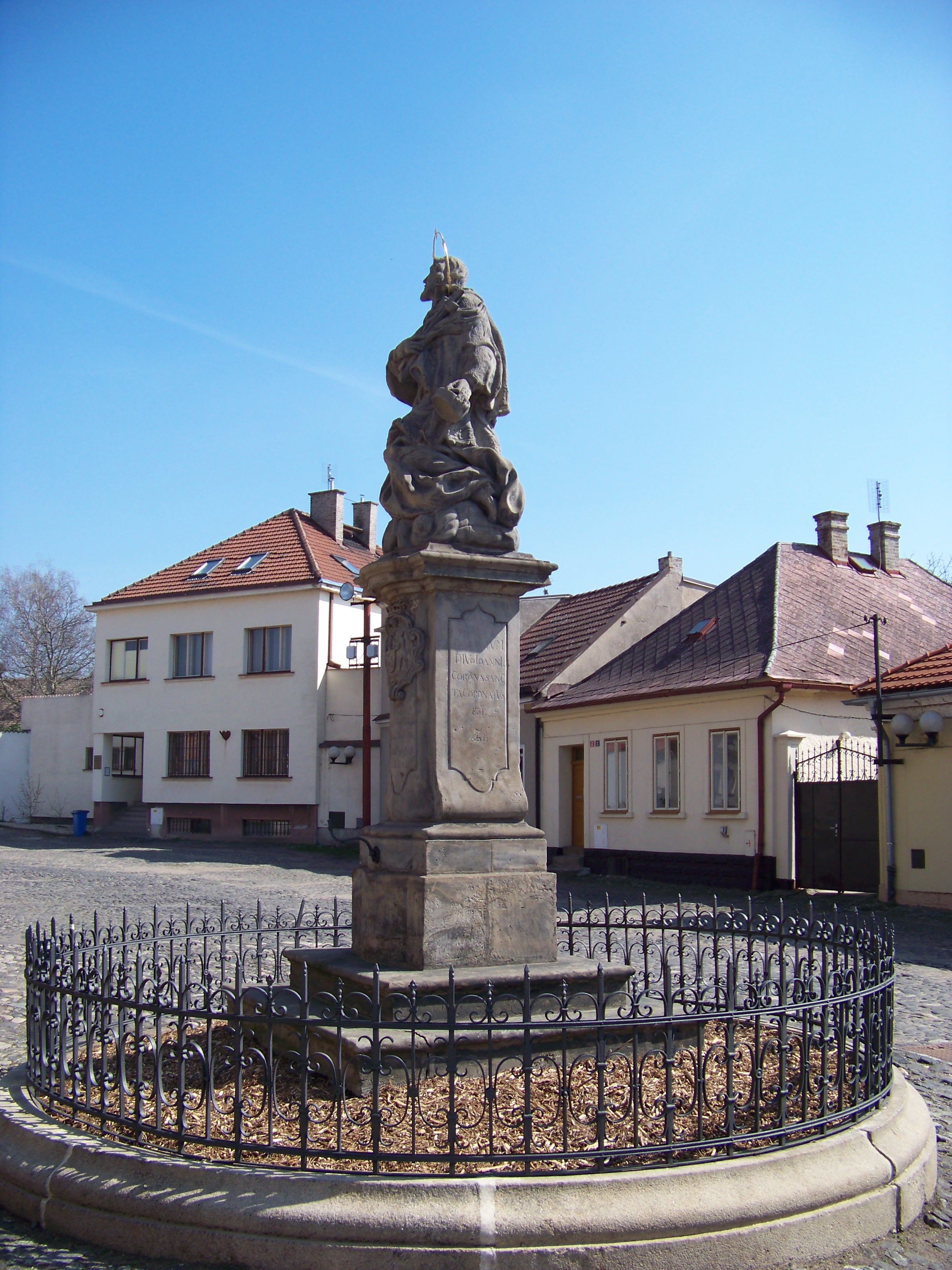 Nymburk, Central Bohemian Region, the Czech Republic. Kostelní Square, statue of Saint John of Nepomuk.